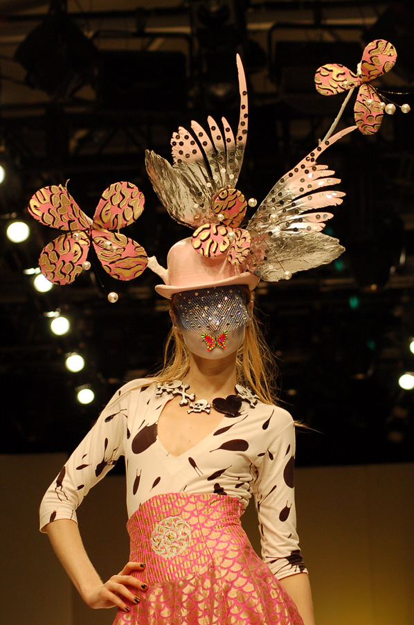 Manish Arora design (Spring 2007 collection) at London fashion Week